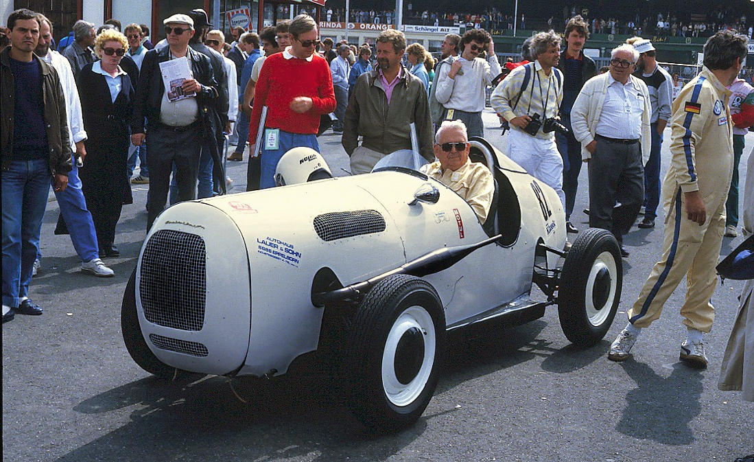 Race car self-made by Jakob Lauer (* 1912, † 11.2004) from the years 1947/48 with suspension, two-cylinder two-stroke engine and gearbox of a DKW F8, built in 1939; displacement of the engine 690 cc, power initially about 22 hp, later up to 40 hp. The photo was taken at the Oldtimer Grand Prix of the AvD 1986 in the paddock of the Nürburgring; at the wheel of the car Jakob Lauer